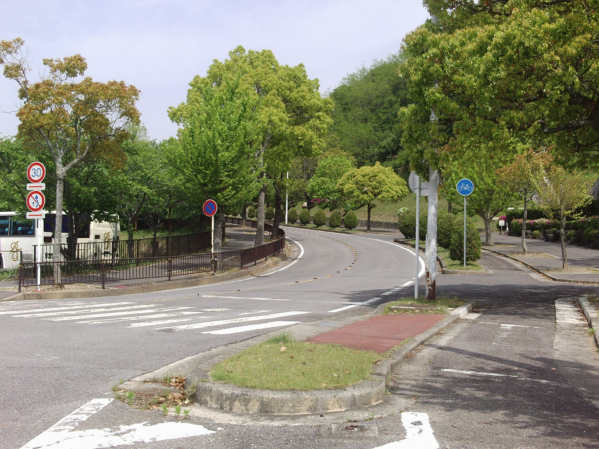 Ending point of Aichi prefectural road No.330 in Higashihazucho, Nishio, Aichi.